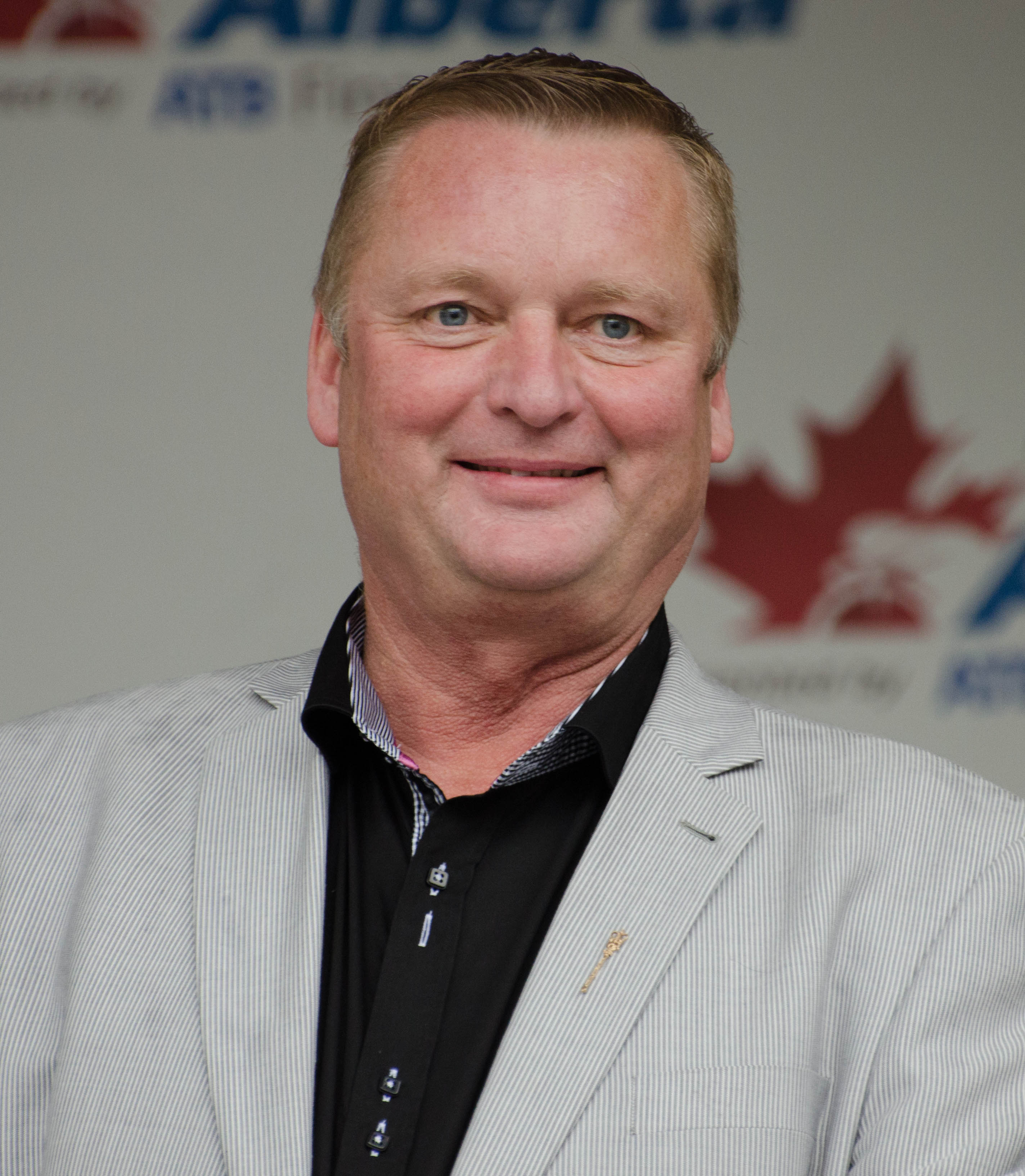 Wayne Drysdale at stage 5 of the 2014 Tour of Alberta